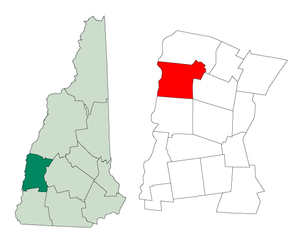 Map of a municipality in Sullivan County, New Hampshire